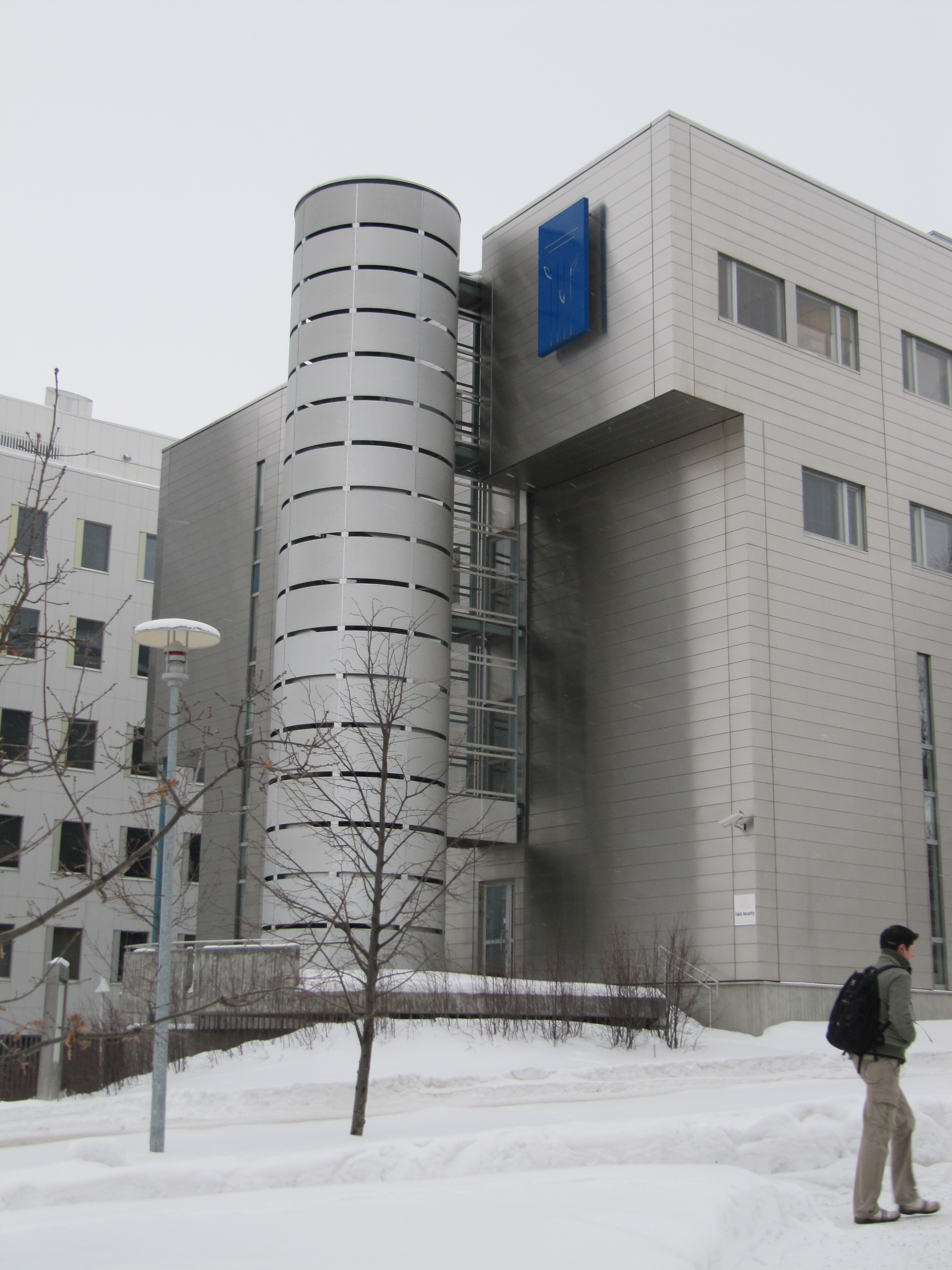 University of Tampere in Tampere, Finland